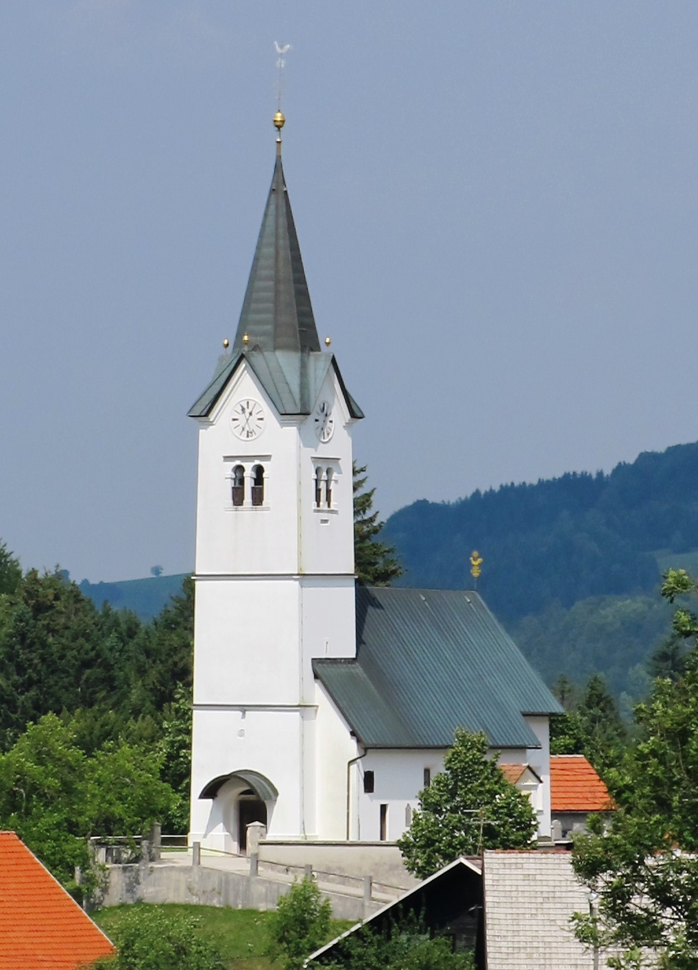 Church of Saint Ulrich in Zavratec, Municipality of Idrija, Slovenia